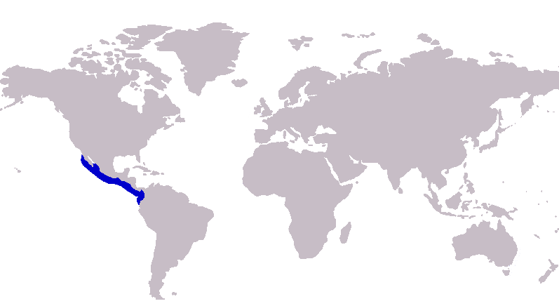 Distribution of cocinero, Caranx vinctus using map based on GDFL image: }